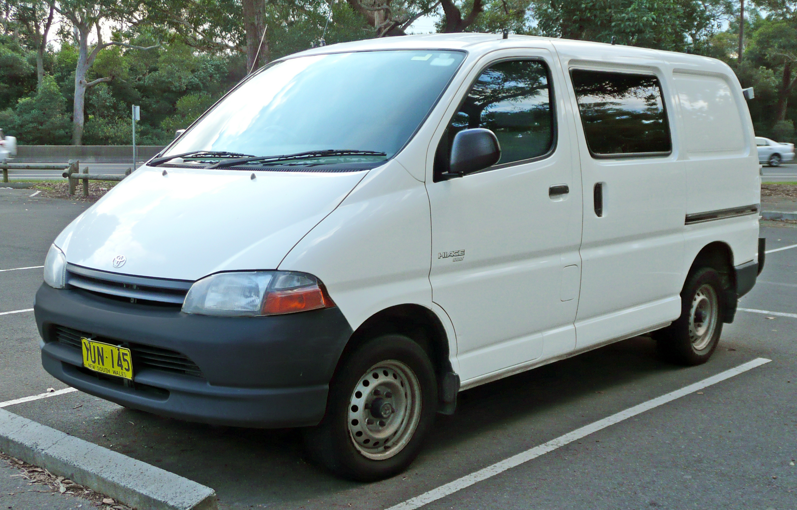 2001 Toyota Hiace SBV (RCH12R) van. Photographed in Loftus, New South Wales, Australia.